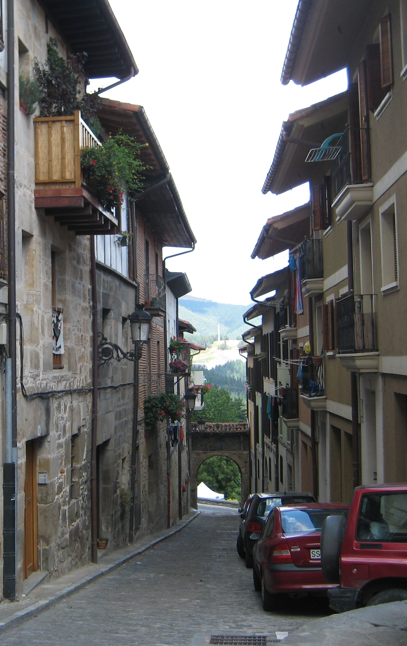 Street in Salinas de Léniz / Leintz Gatzaga, Gipuzkoa, Basque Country, Spain.